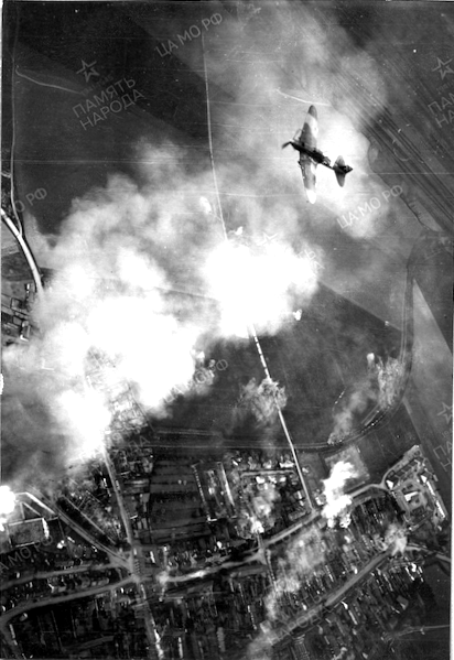 An Ilyushin Il-2 from a unit of the 5th Air Army attacking a German firing position and artillery battery southeast of Břeclav during the Bratislava–Brno Offensive